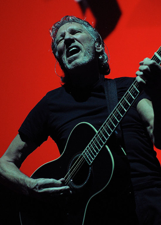 Roger Waters performing The Wall at the Scotiabank Place in Ottawa.Photo by: Brennan Schnell/Eastscene.com